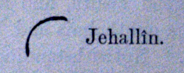 Tribal mark (Awsam) of Jahalin Bedouin exhibited in Jerusalem 19th December 1851